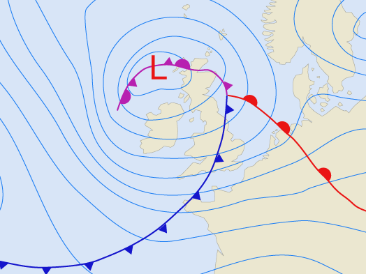 A map of Western Europe and the North Sea with isobars and weather fronts.